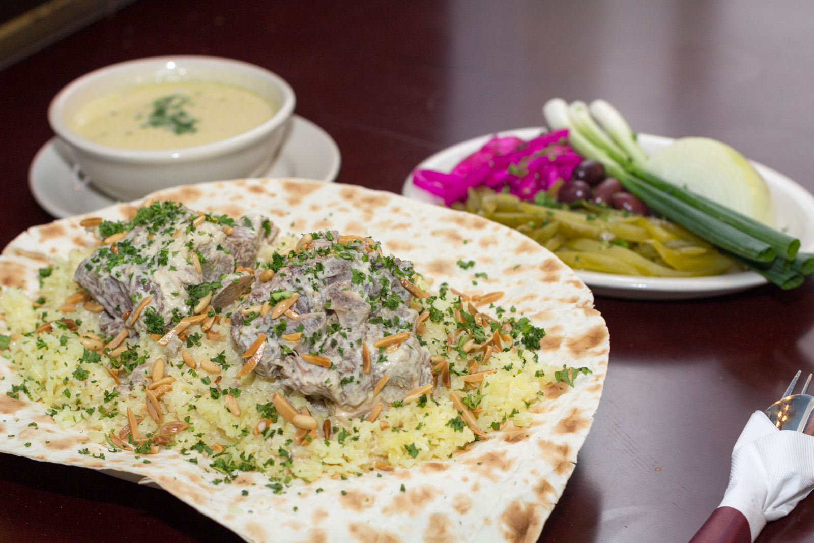 This is traditional Mansaf prepared by Jordanian-Palestinians at Cafe Amasi Houston.